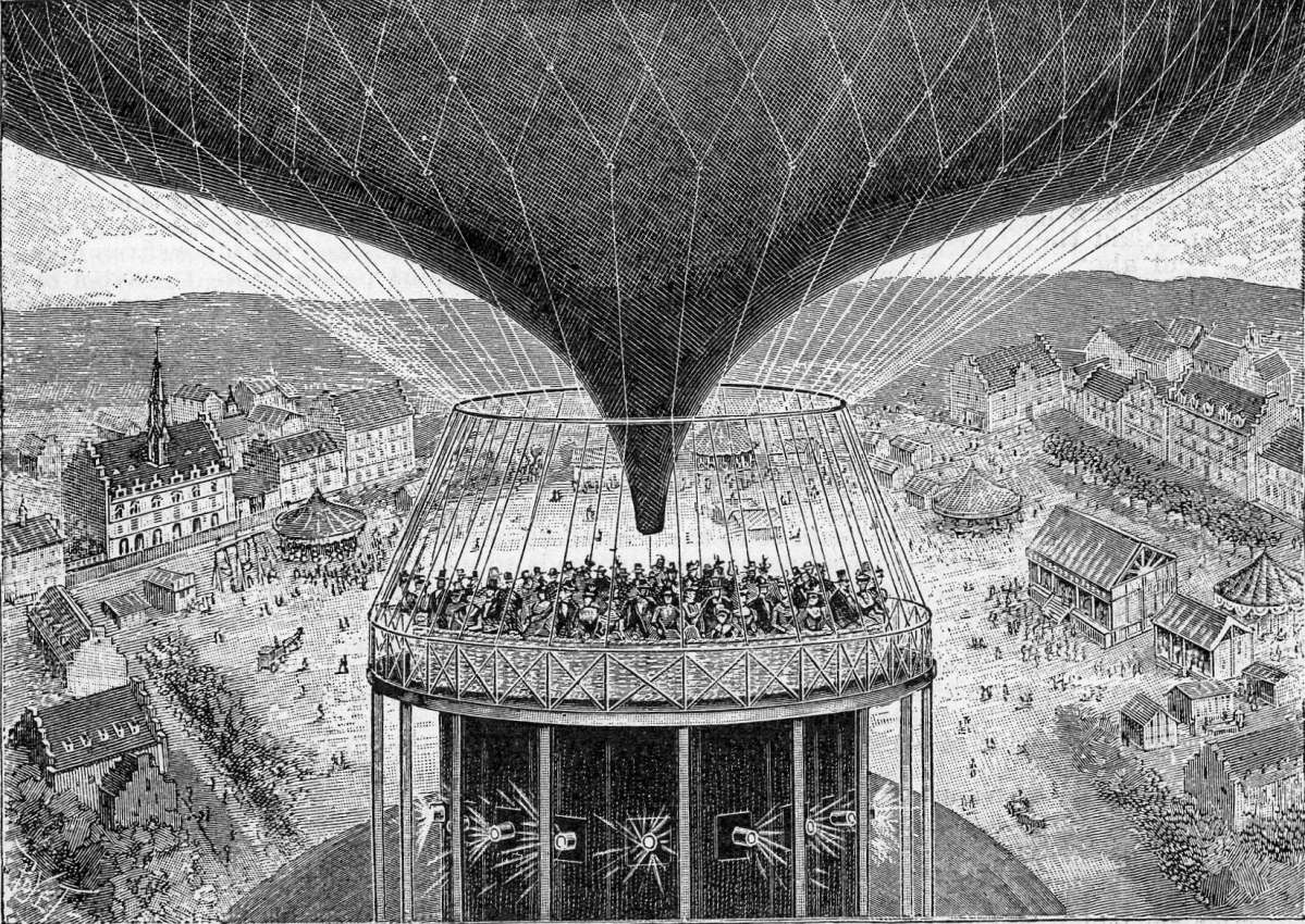 Illustration of the Cineorama balloon simulation, at the 1900 Paris Exposition